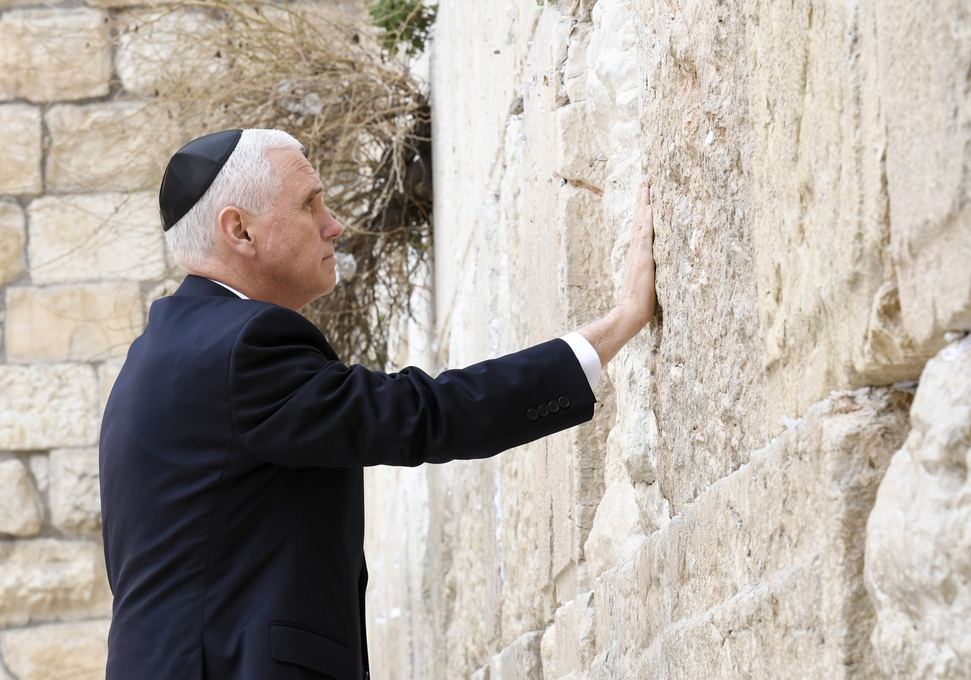 Vice President of the United States Mike Pence visits the Western Wall in Jerusalem, January 23, 2018.